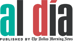 Al Día (Dallas) logo